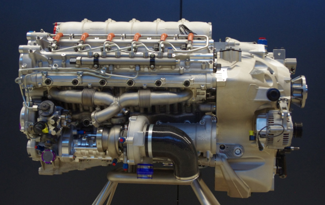 Side view of RED A03 V-12 engine